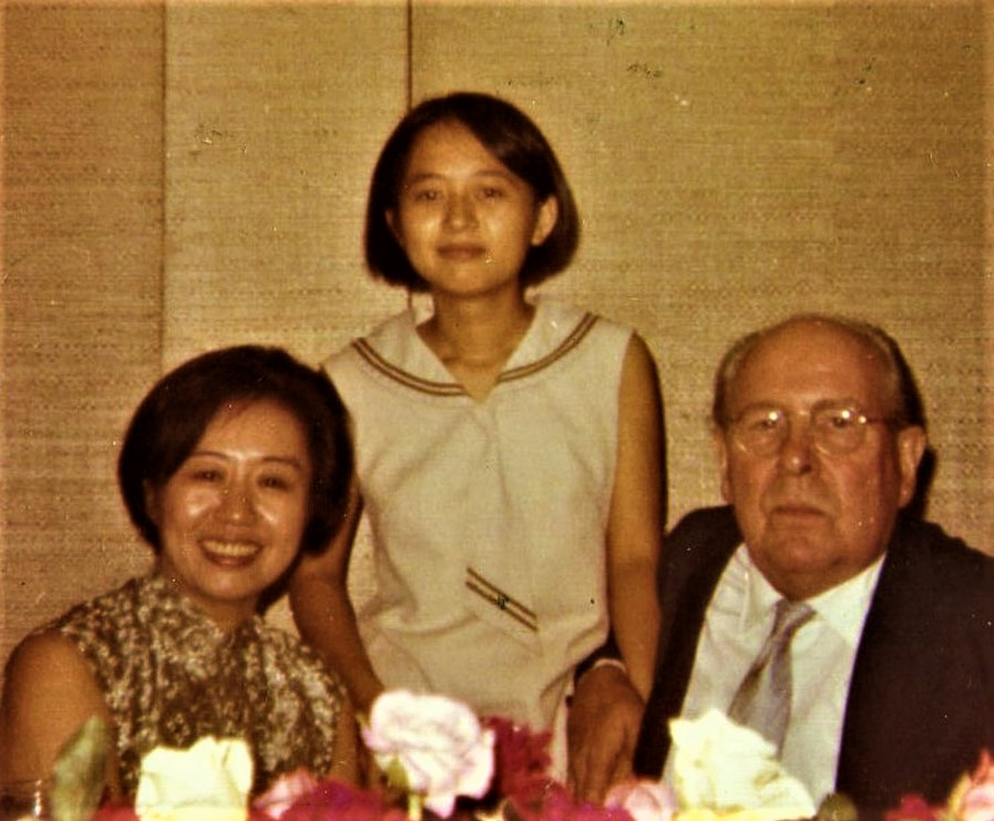 Emane Wu, Lina Yeh and Dr. Robert Scholz in Taipei, 1971. Photographed by Ting Yeh.